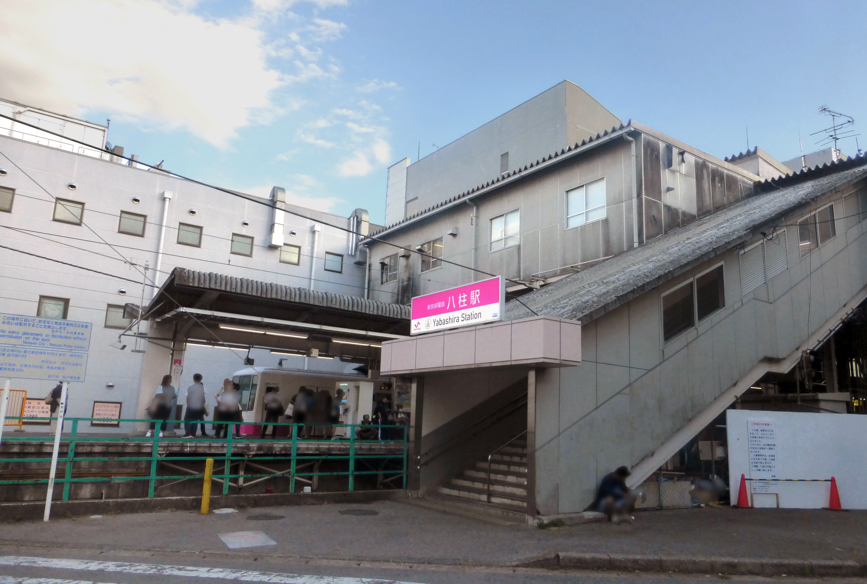 八柱駅北口 (Yabashira Station north exit)